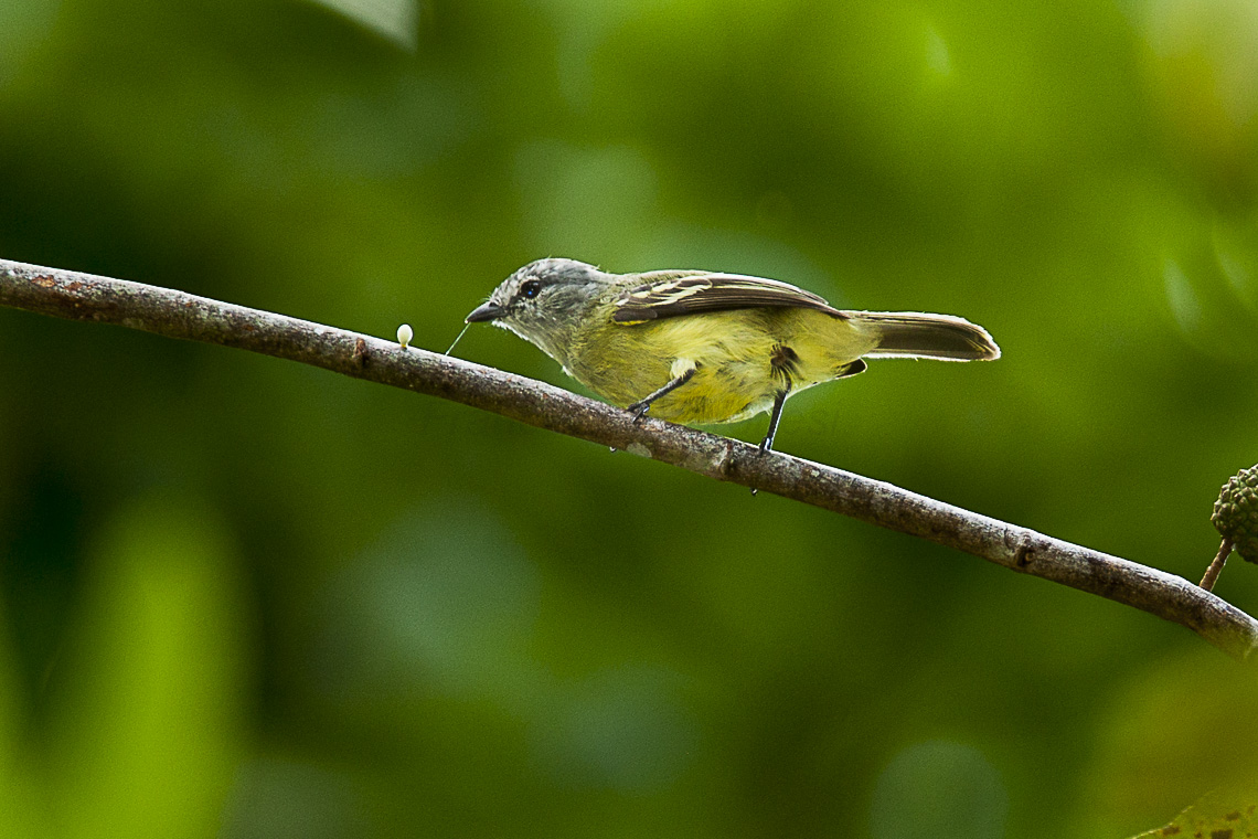 Yellow-crowned Tyrannulet - Panama_MG_2117